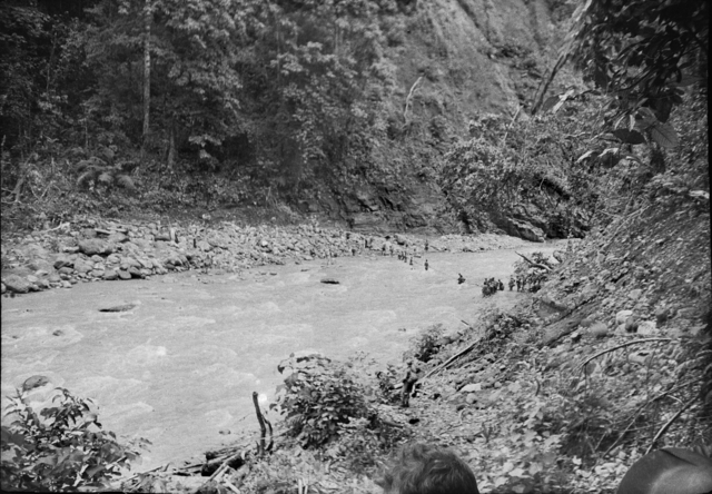 Gazelle Peninsula of New Britain, Papua New Guinea Summary: Warangoi River, New Britain. 1942-01. The Adler River, in the Bainings Mountains on the eastern side of the Gazelle Peninsula, an obstacle to the Australian troops retreating from Rabaul after the successful attack by Japanese forces. This is the point where at least two parties of retreating Australian troops crossed the Adler River. The first party of twenty one men from the Anti-aircraft Battery Rabaul and the 17th Anti-tank Battery crossed here on 1942-01-26 securing a lawyer vine rope to cross the river. This image was taken in late January 1942 and shows some of the men of Sergeant L. I. H. (Les) Robbins' party fording the river as they make their way south toward Palmalmal Plantation and rescue in April 1942.